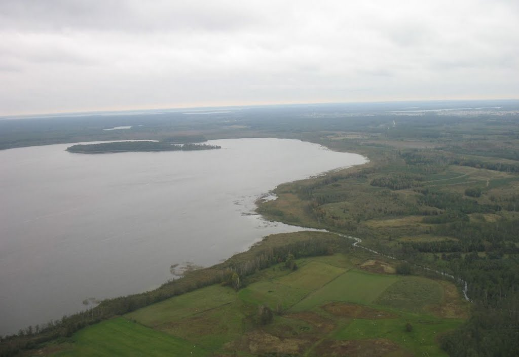 Aerial view of the lake